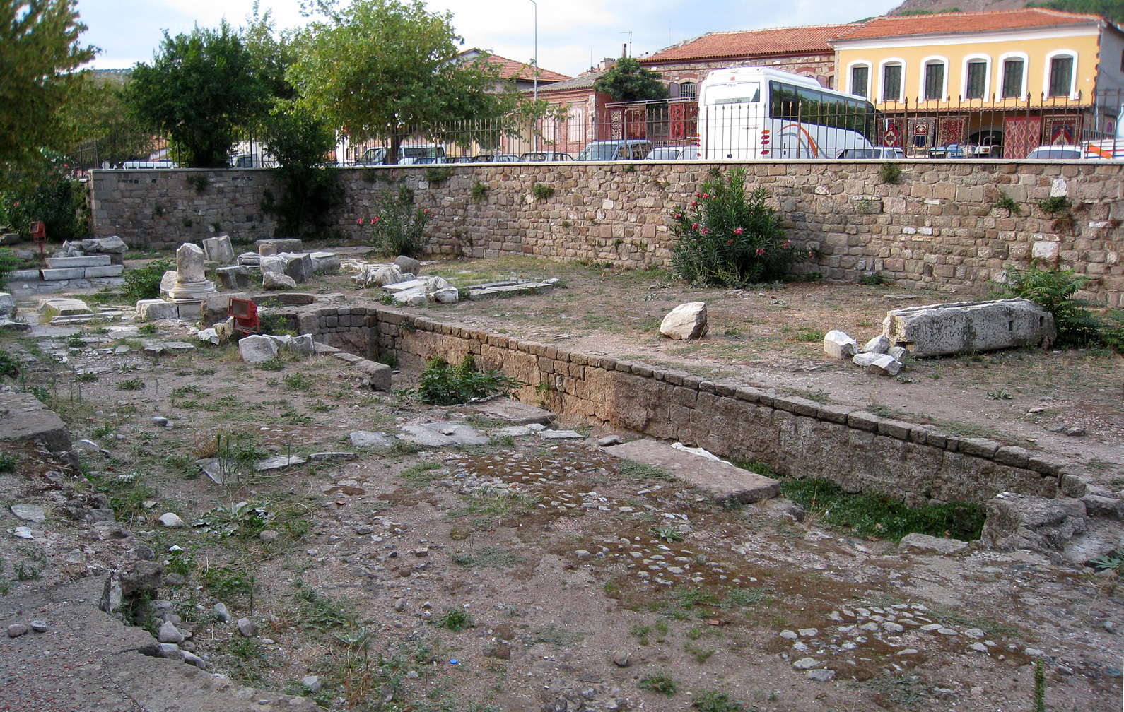 Water basin in the north courtyard of the Red Basilica, Pergamon